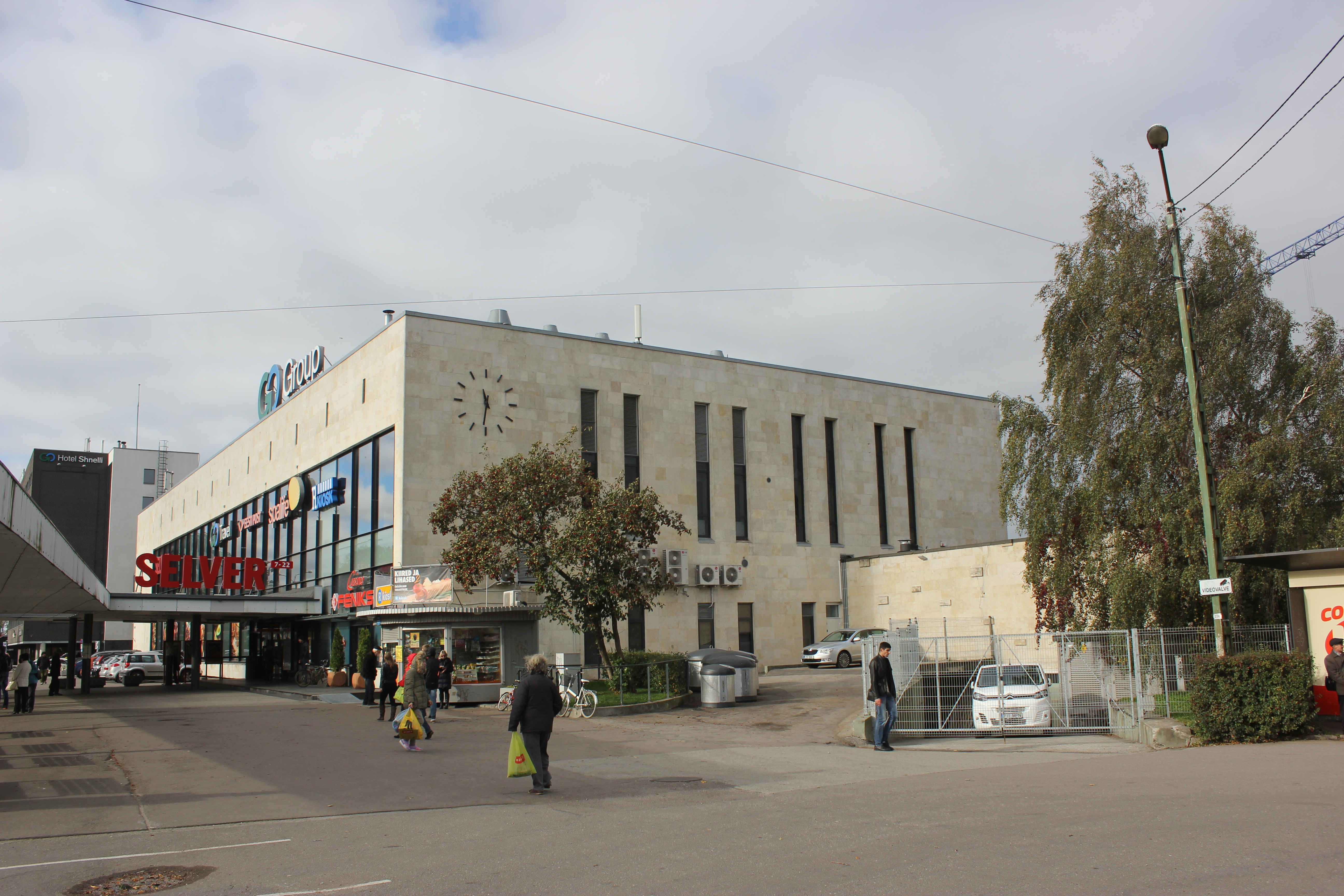 Tallinn - Balti railway station building